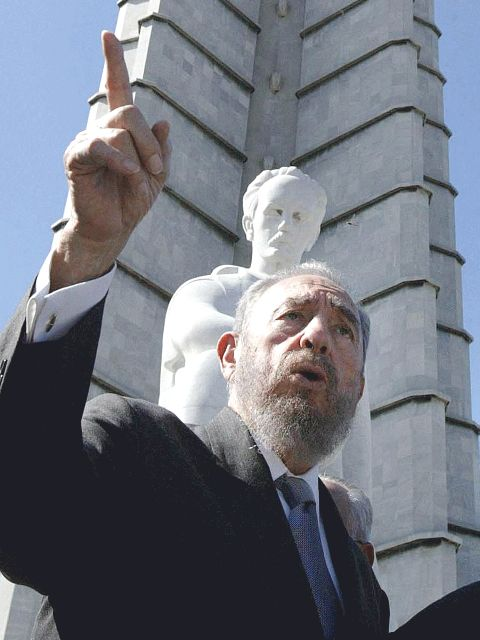 Fidel Castro, at the Monument to José Martí, Havana, Cuba.